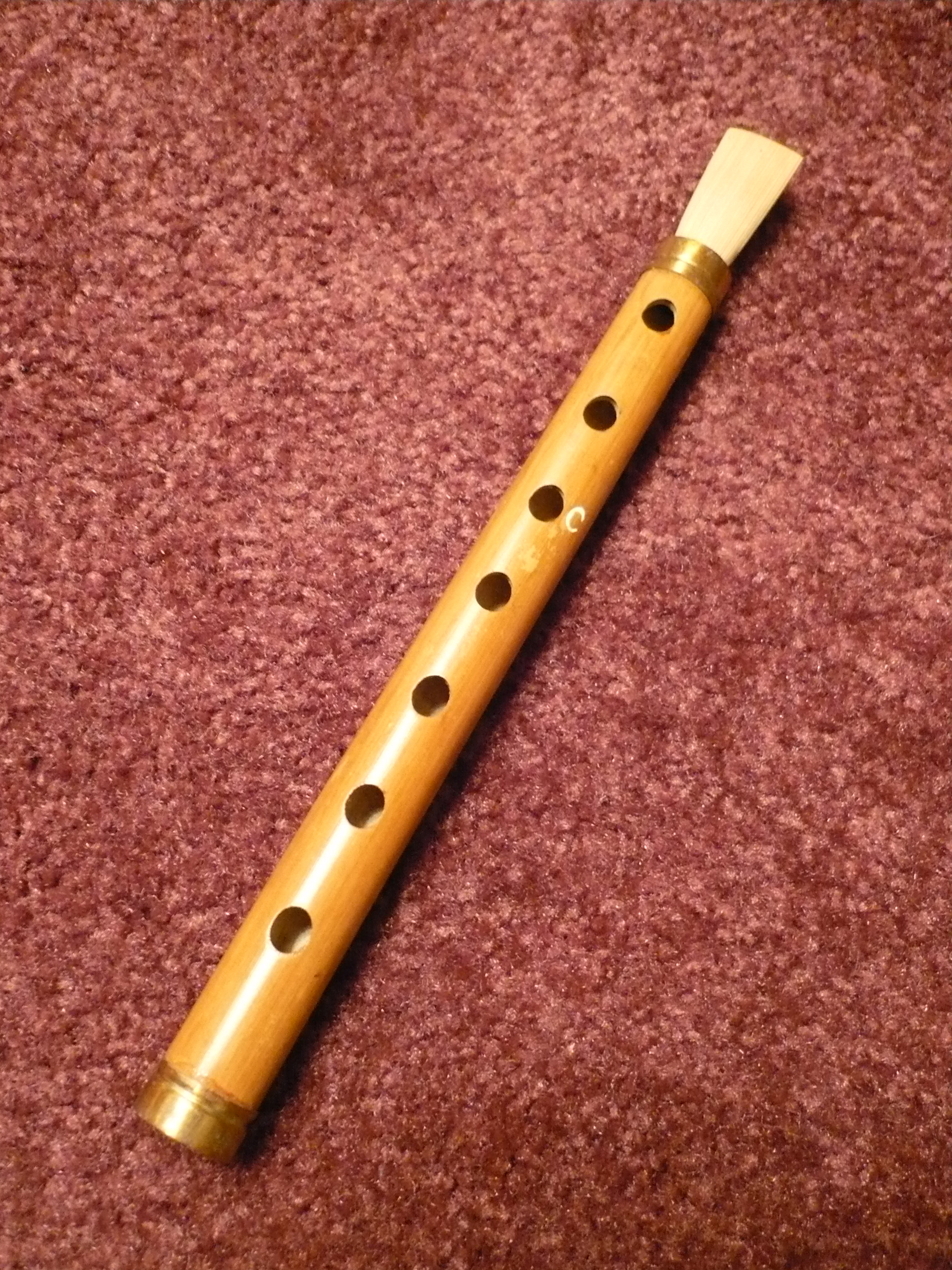 A small Cantonese houguan in the key of C, with reed.